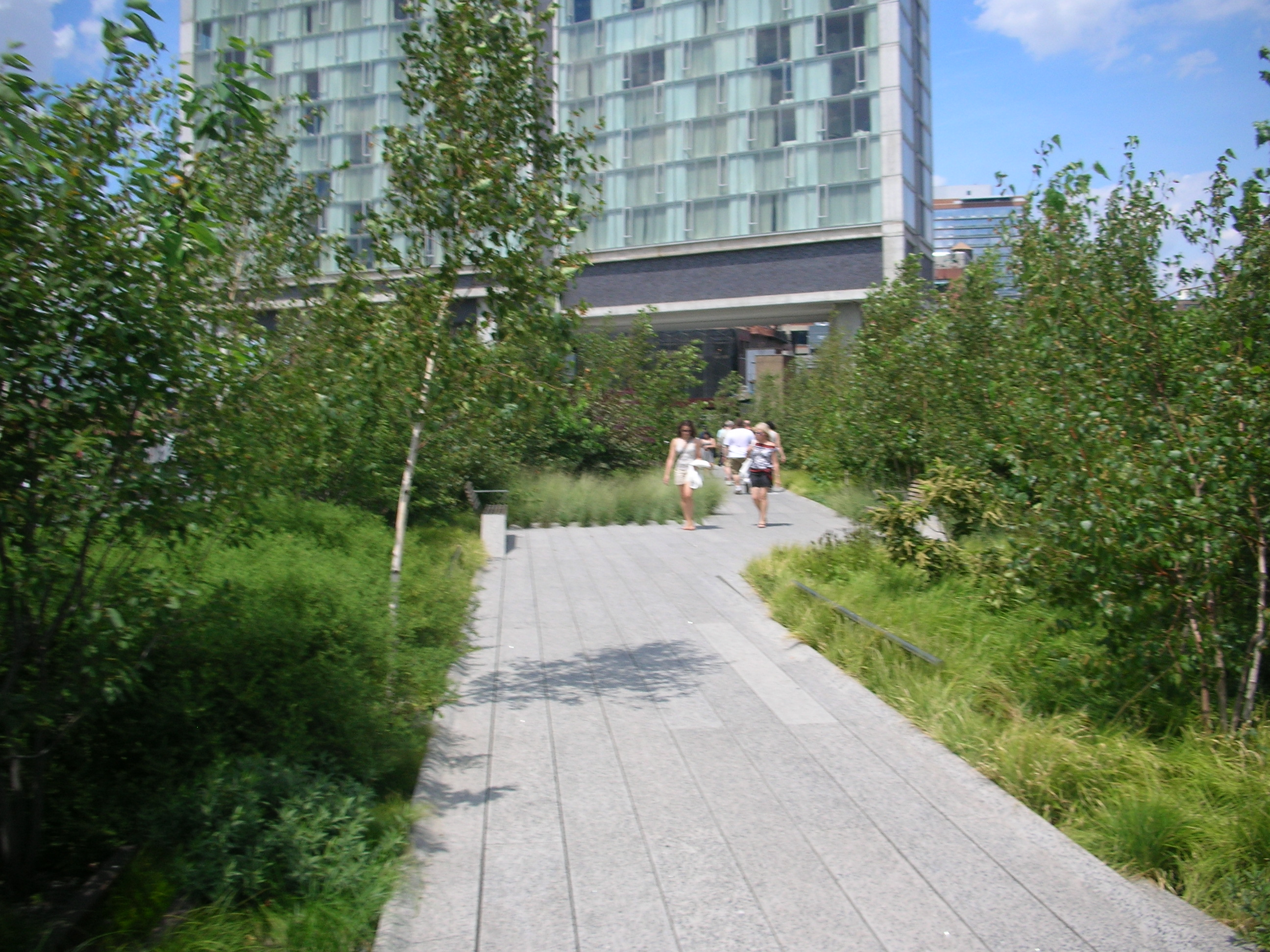 Meatpacking District/Manhattan